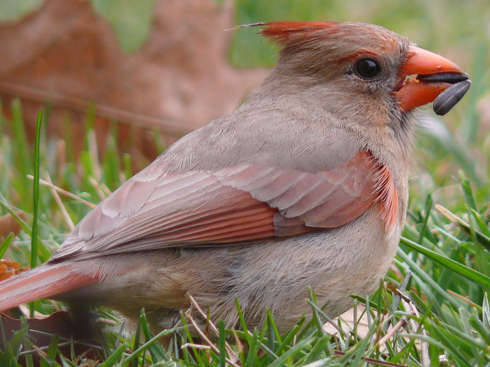 A female Northern Cardinal (Cardinalis cardinalis) eating a sunflower seed. Photo taken with a Panasonic Lumix DMC-FZ50 in Caldwell County, North Carolina, USA.